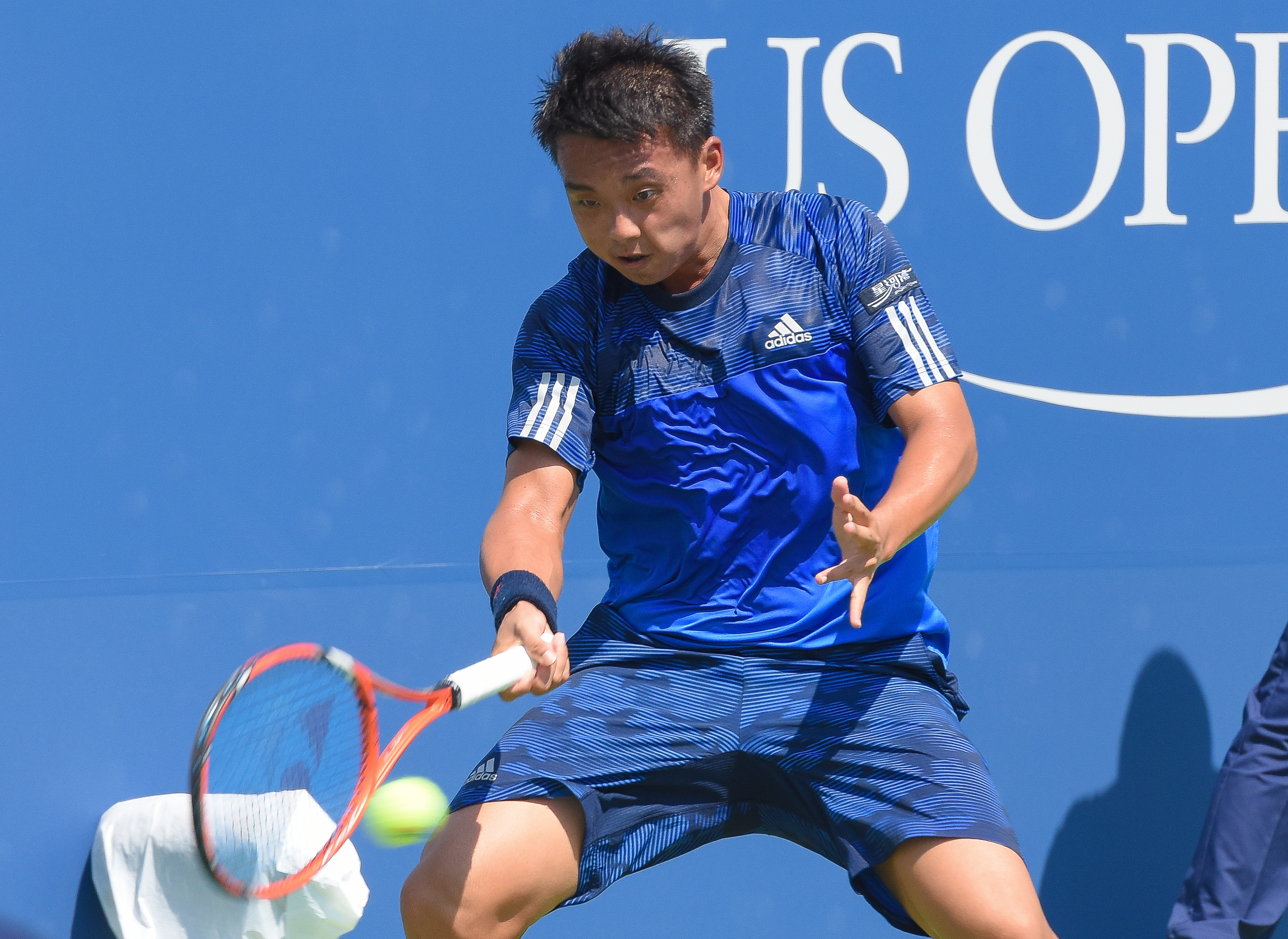 August 25, 2015 Court 17 Flushing, NY